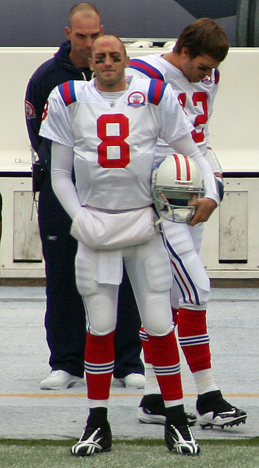 Brian Hoyer, a player on the New England Patriots American football team.